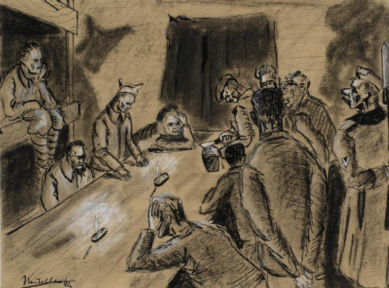 Interior of a German Prison Camp, 1942 image: Despairing Allied soldiers sit around a candle-lit table in a POW hut. Many sit with their heads in their hands as one man stands to cut a loaf of bread. They are watched by a passing guard.